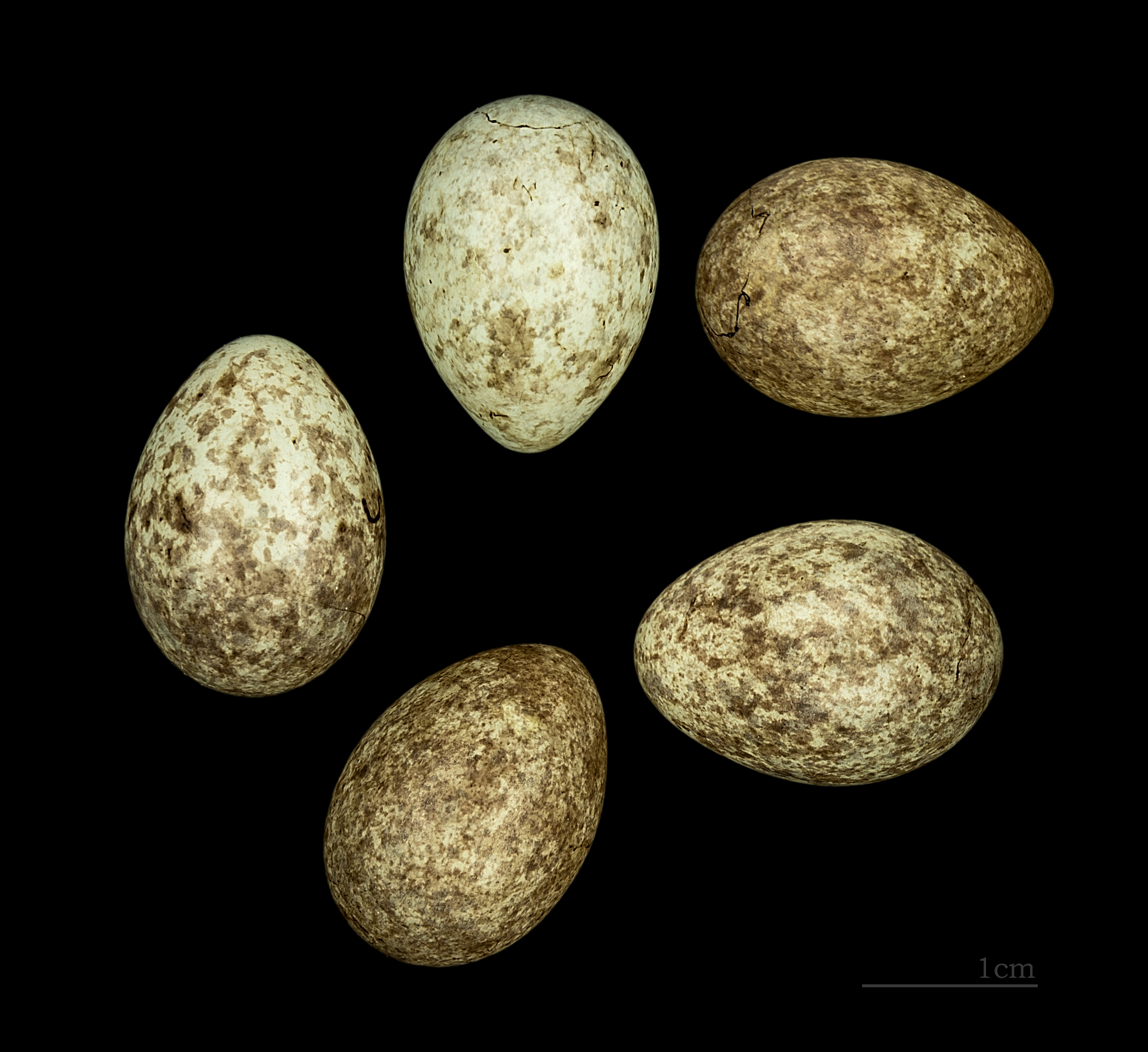 Egg of Rustic Bunting. Collection of Jacques Perrin de Brichambaut.